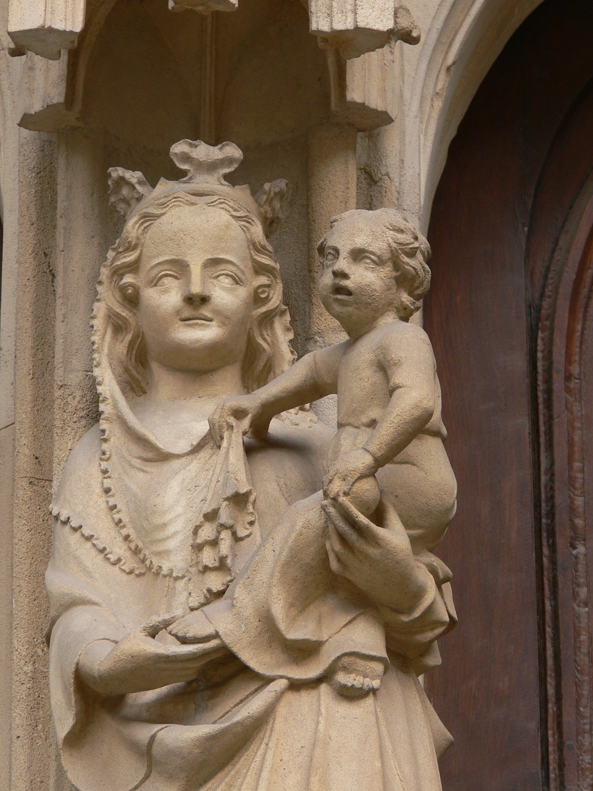 Vienna, Franciscan church. Main portal ( 1350 ): Statue of Madonna and child at the trumeau